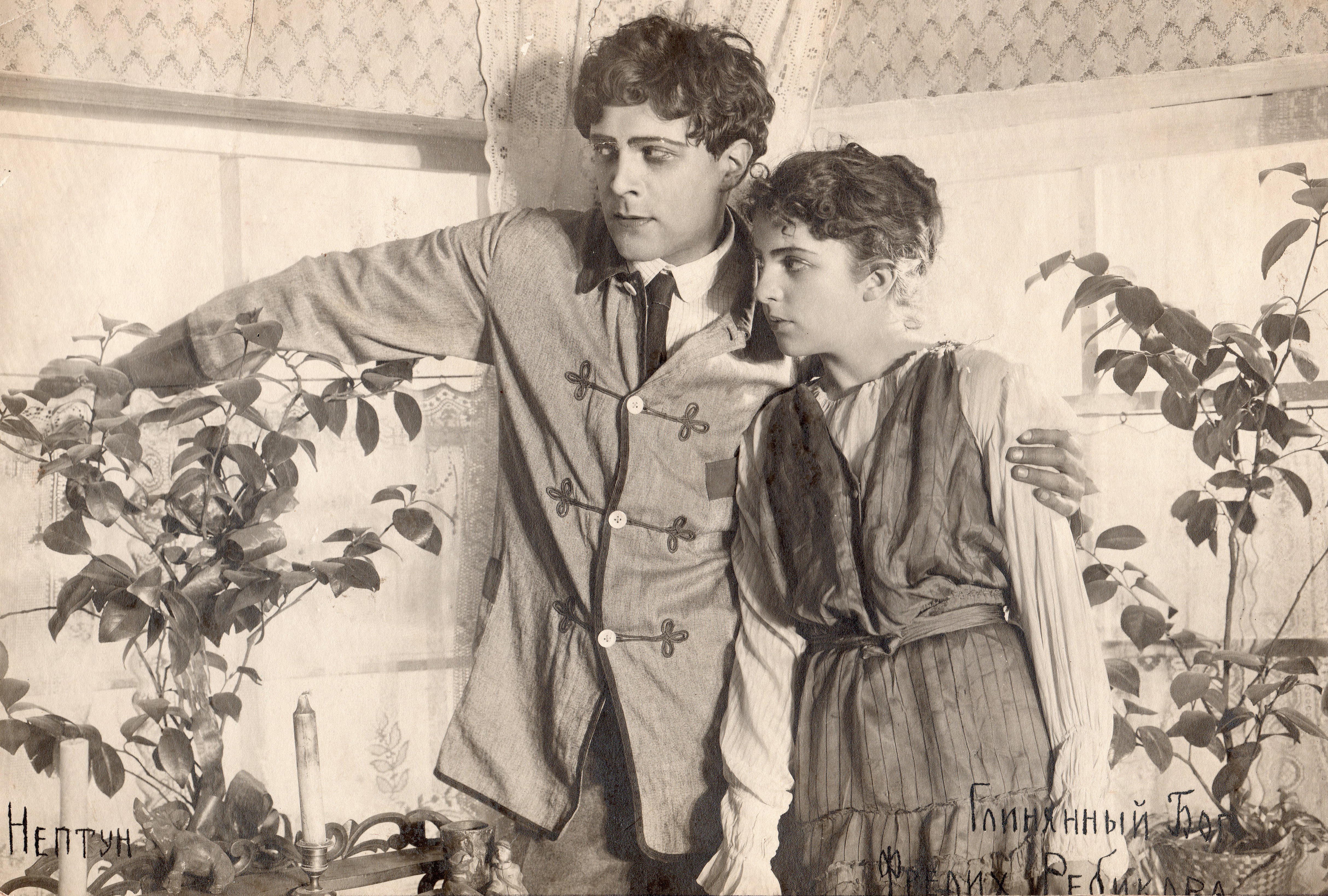 Alexandra Rebikova and Oleg Frelyh in the film "Clay God", 1918